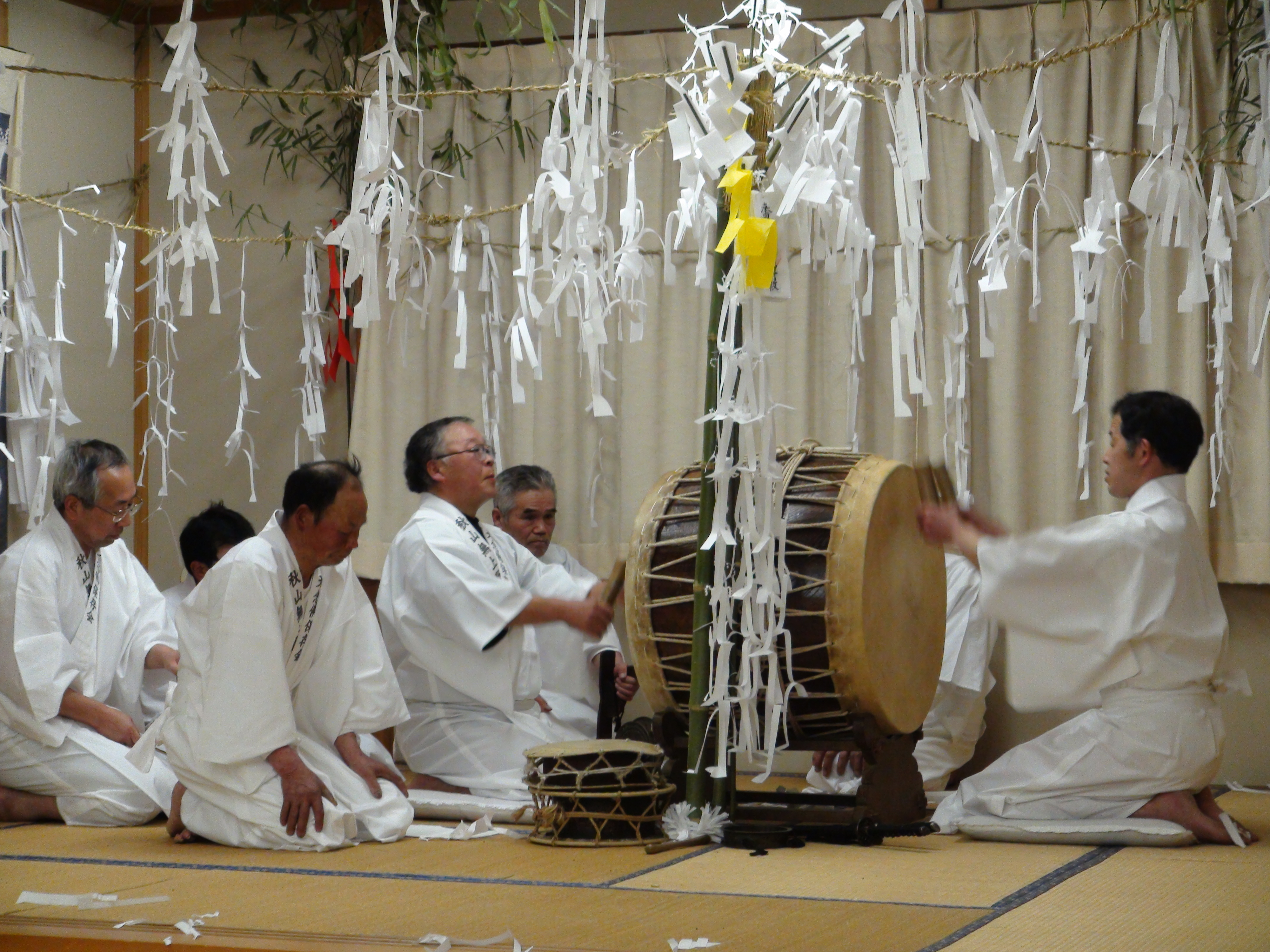 Mushono-Dainembutsu dance ritual prayer to the lid